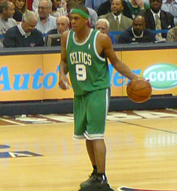 User:Chrisjnelson agreed to license this image of Rajon_Rondo.jpg under a free attribution license.